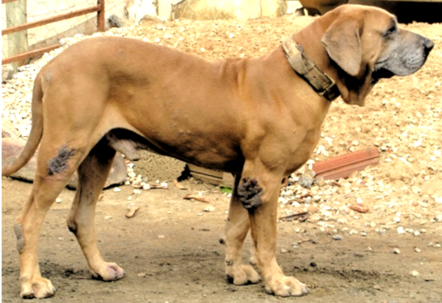 Old brazilian fila male adult